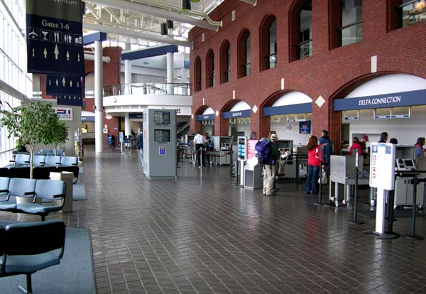 Ticketing area at the Roanoke Regional Airport, Roanoke, Virginia